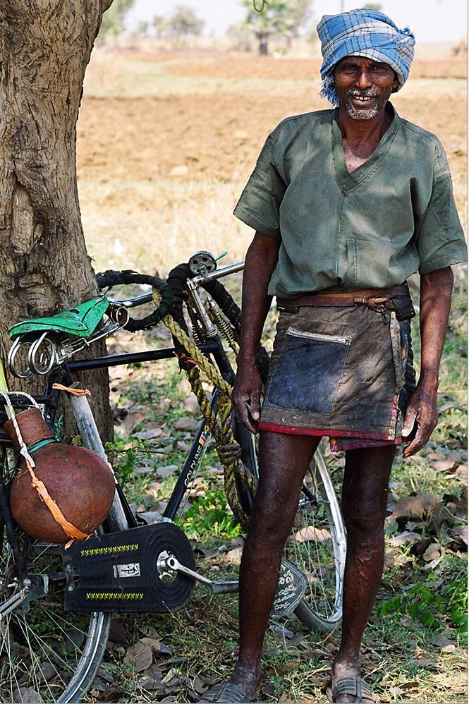 His name is Yadaiah, one of the toddy tappers I met when we went to a picnic. Around 100 kilometres away from Hyderabad, is a pretty little village called 'Komaravelli' also called 'Komarelli'. Famous for a temple of God 'Mallanna' (Lord Shiva). Though we friends were there because of a different reason. Just to have fun and drink "Toddy" also called 'Kallu' in my native language. You might be wondering what is this toddy... Palm wine, also called palm toddy or simply toddy, is an alcoholic beverage created from the sap of various species of palm tree. The drink is particularly common in parts of Africa, South India ,particularly Andhra Pradesh, Kerala and Tamil Nadu, where it is known by the name of kallu and in the Philippines, where it is known as tuba.